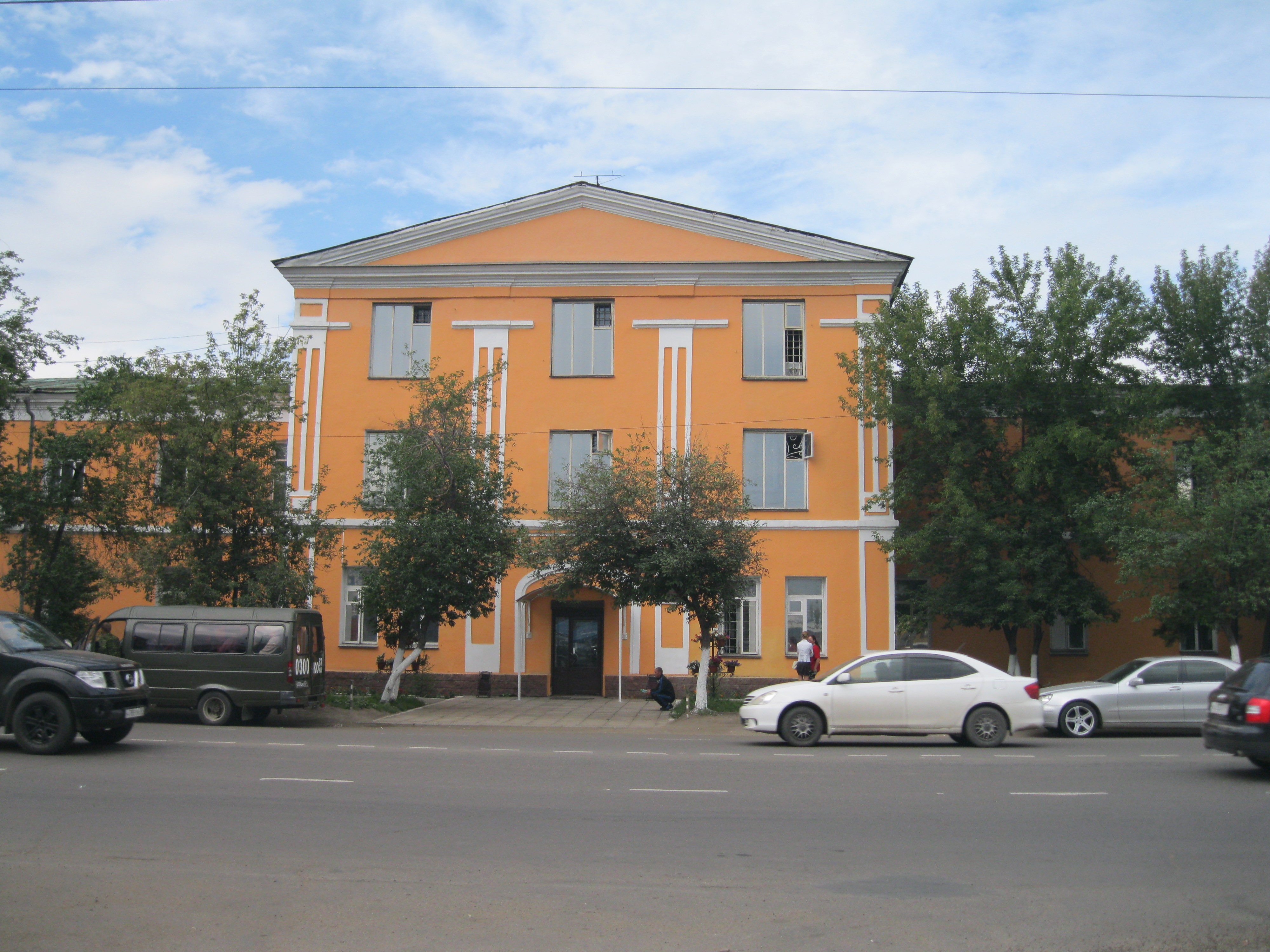 Irkutskaya Turma, arest Kolchak